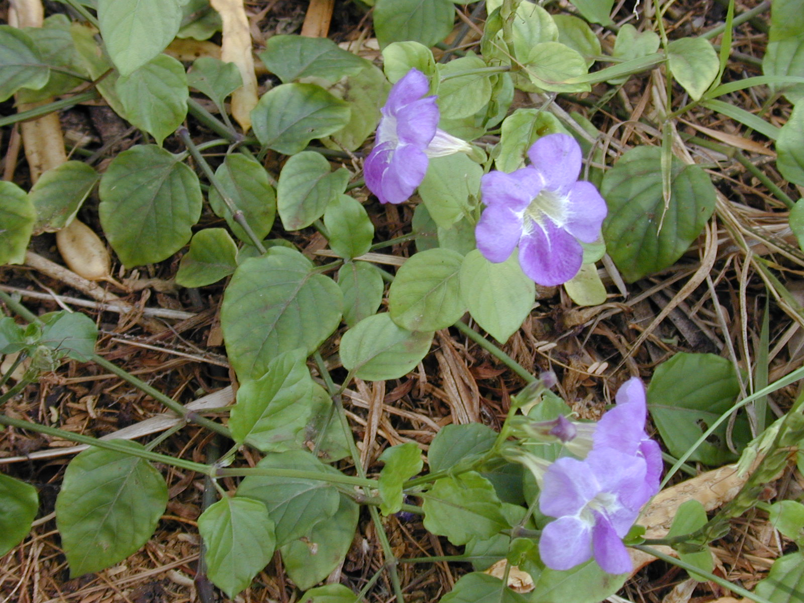 Asystasia gangetica (flowers). Location: Maui, Kalepolepo